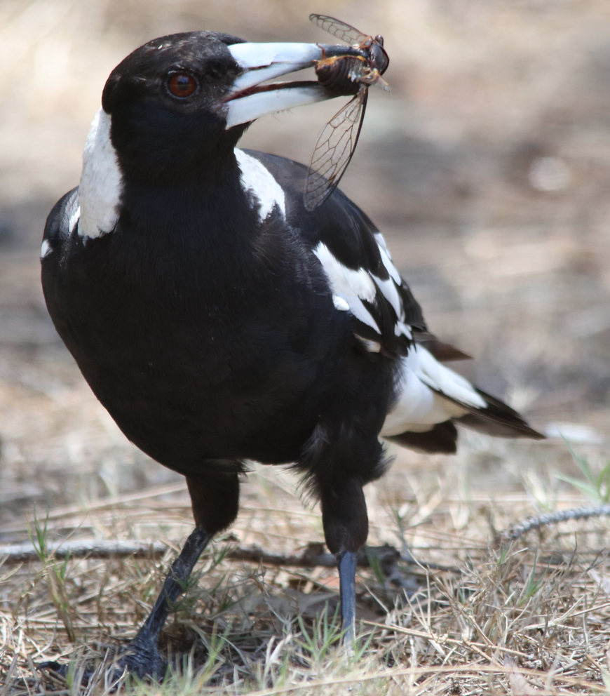 Magpie (Gymnorhina tibicen tibicen) with a cicada at Church Point, NSW, 2017-12-27.